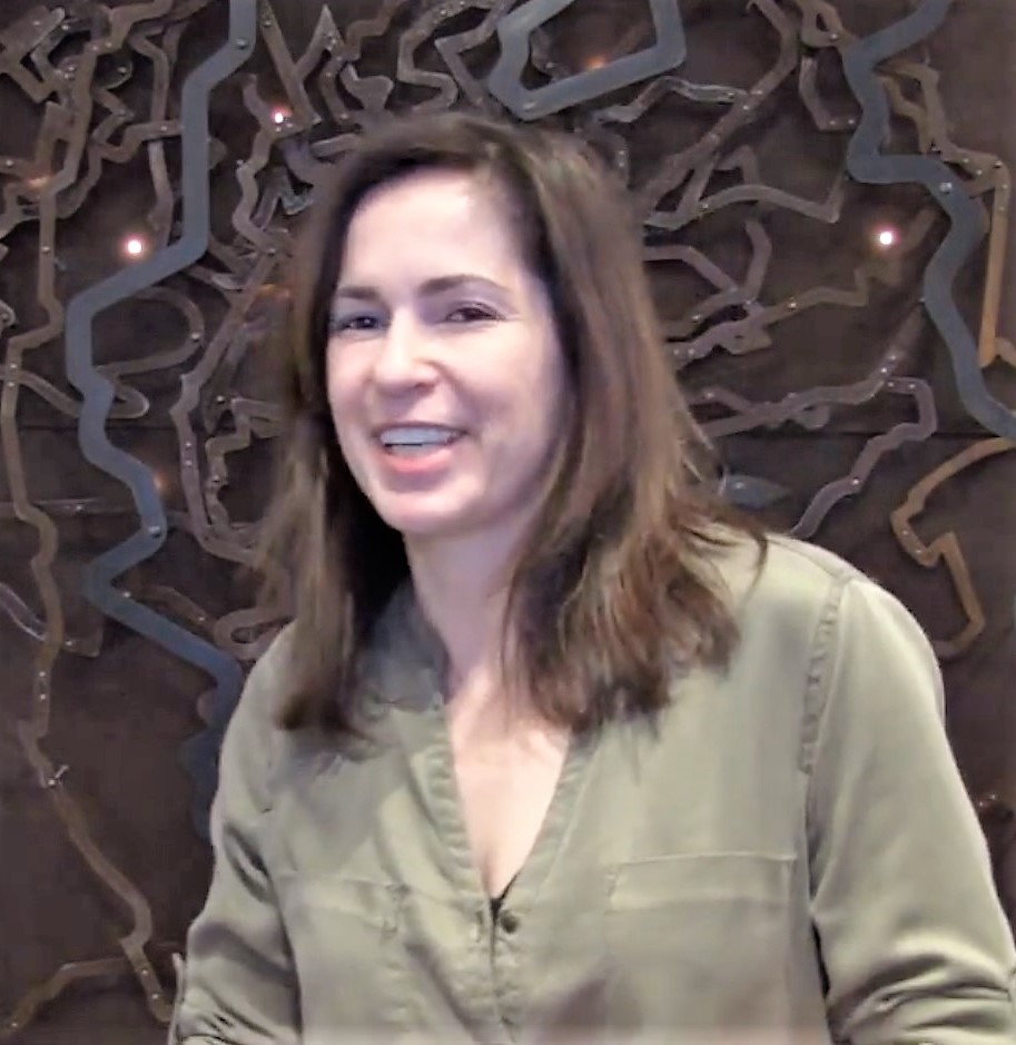 Creativity in the Internet age In April 2015 Brussels has hosted a series of meetings under the title Meet the authors #fixcopyright . On that occasion Lexi Alexander and Cory Doctorow shared their thoughts on Internet users and creators.